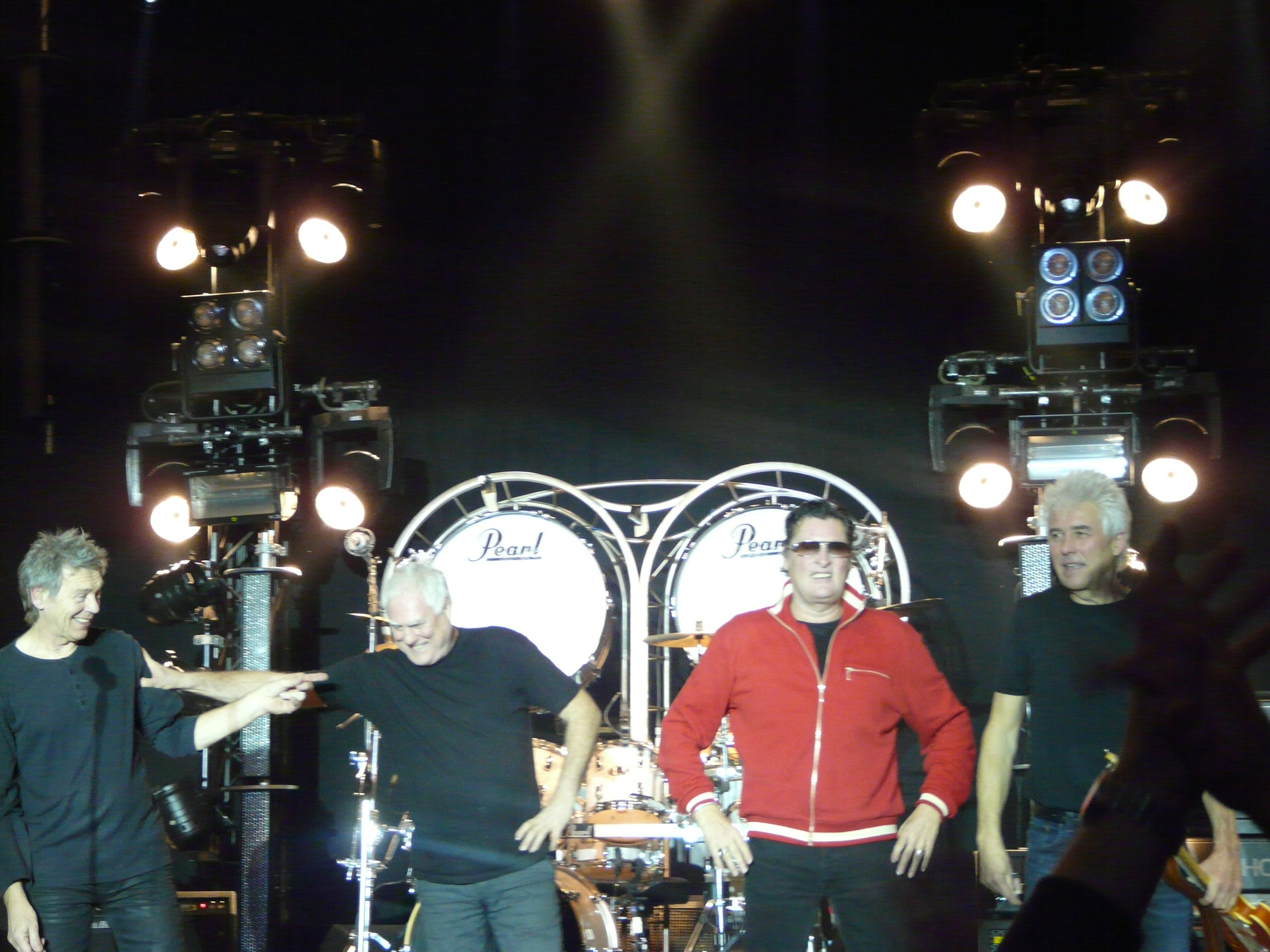 Rock band Golden Earring on stage after their concert in Kerkrade, December 19 2009